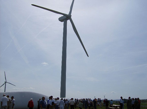 Fenner Wind Farm, taken by Sgt. bender in 2007 during trip with Assemblyman Pete Lopez. Sgt. bender (talk) 03:01, 19 May 2008 (UTC)